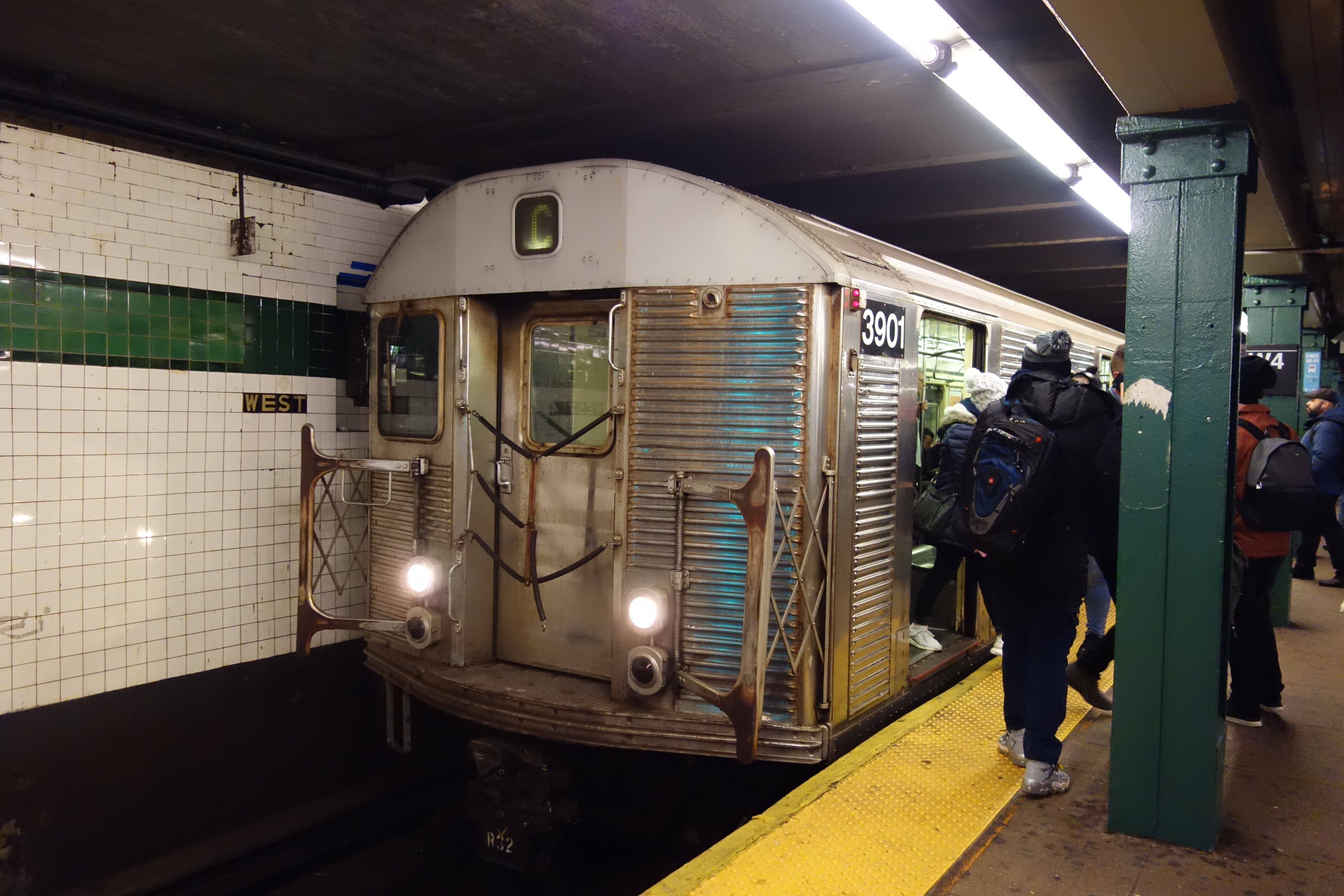 A Brooklyn-bound C train stopped on the upper level of the West Fourth Street – Washington Square subway station in Greenwich Village, Manhattan.